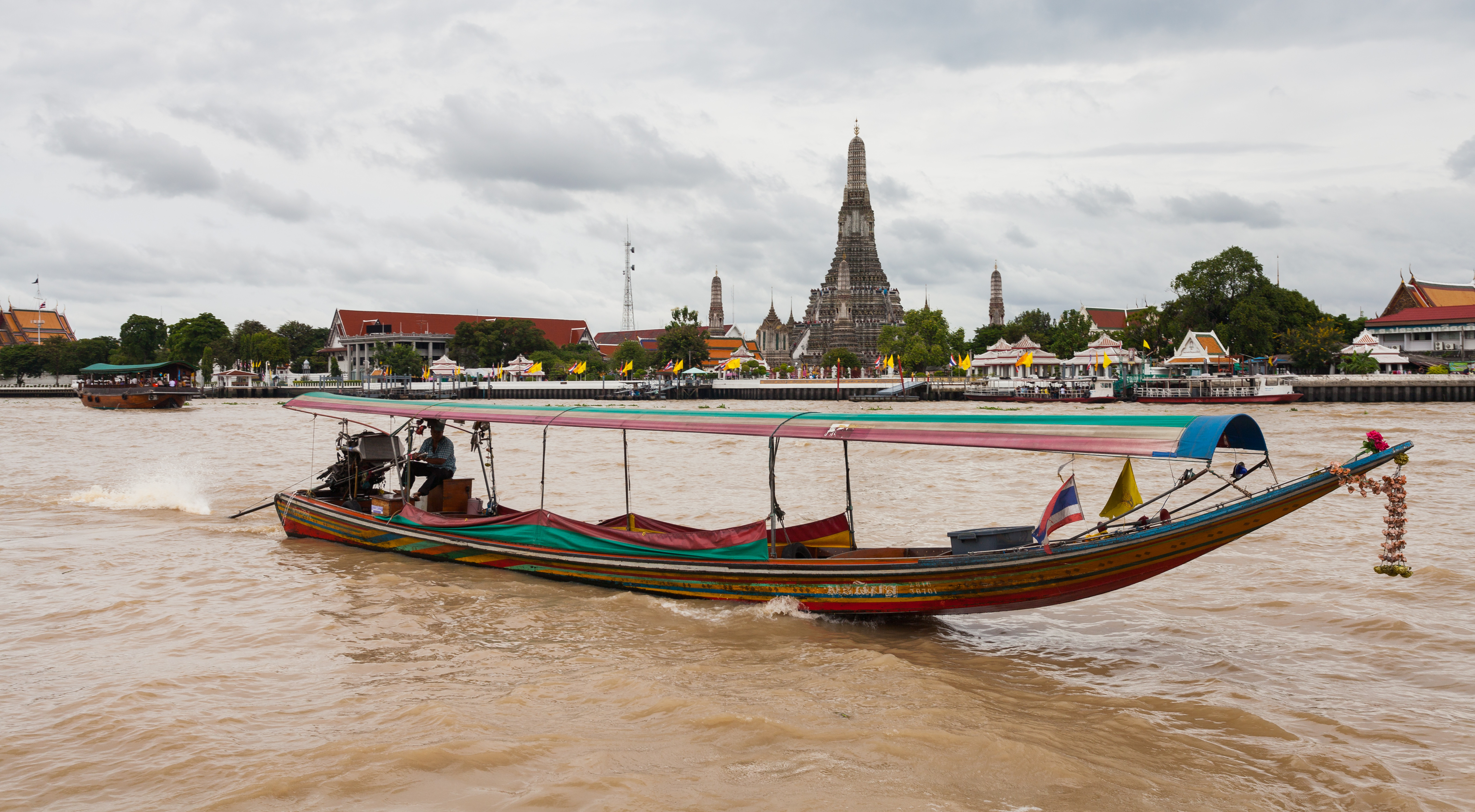 Wat Arun Temple, Bangkok, Thailand